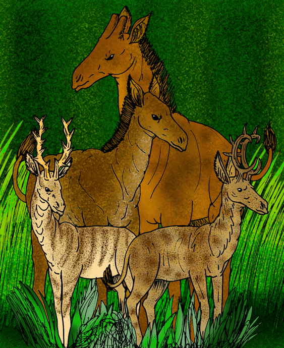 Comparison of the African Miocene giraffids Palaeotragus primeavus (center left), P. germaini (center right), Climacoceras africanus (far left), and C. gentryi (far right). P. germaini stands about 3 meters from hoof to shoulder.